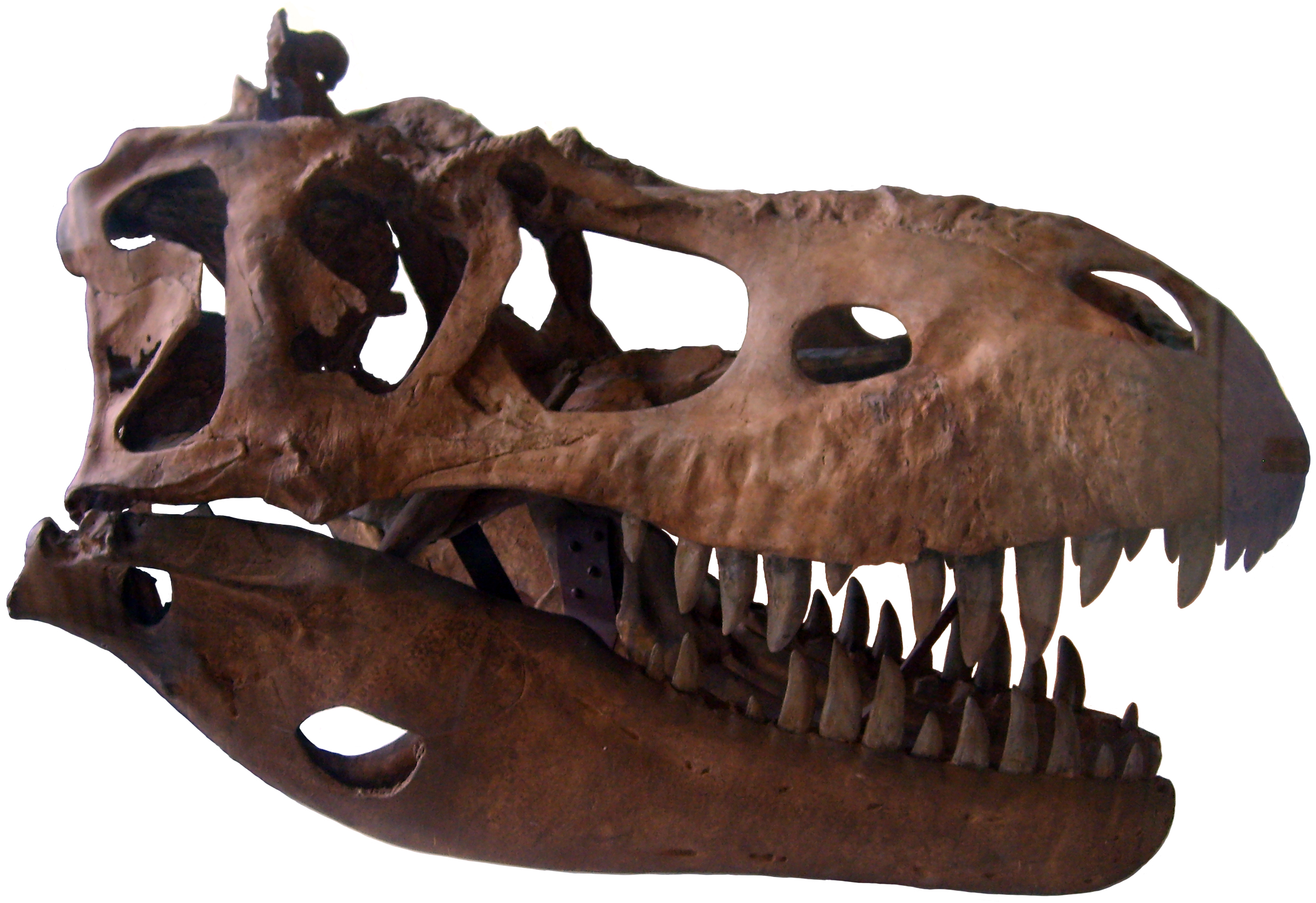 Albertosaurus skull cast (specimen TMP 1981.010.0001) at the Geological Museum in Copenhagen.